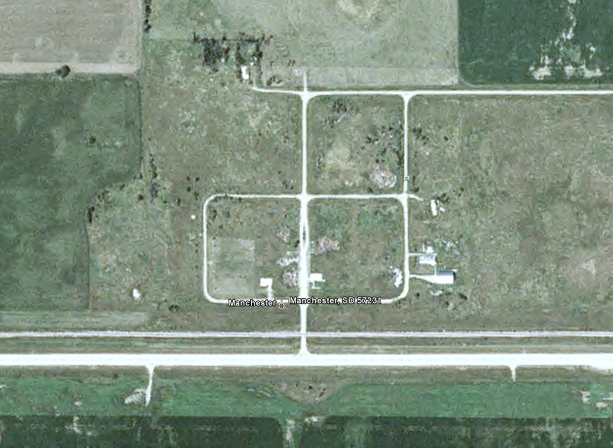 Aerial photo of Manchester, SD c. 2004